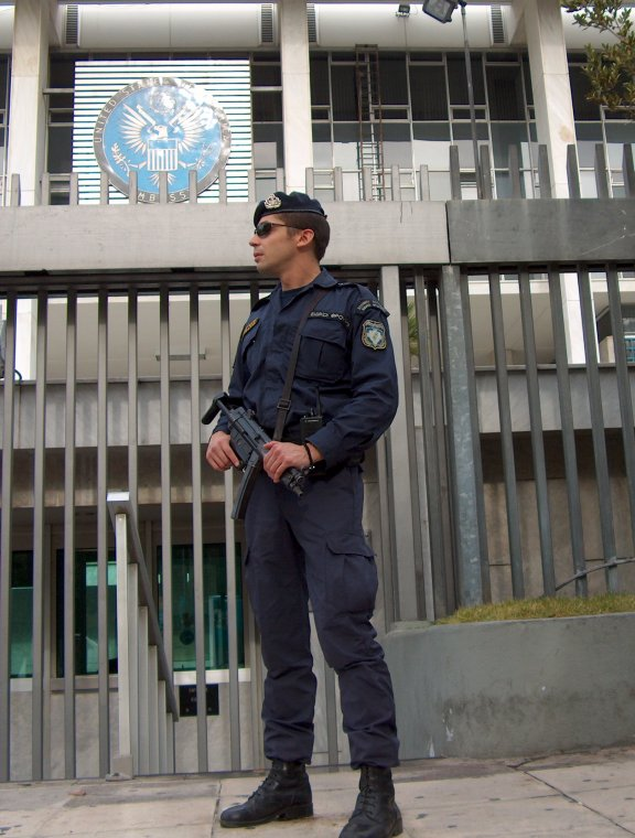 Special Guard out of USA Embassy